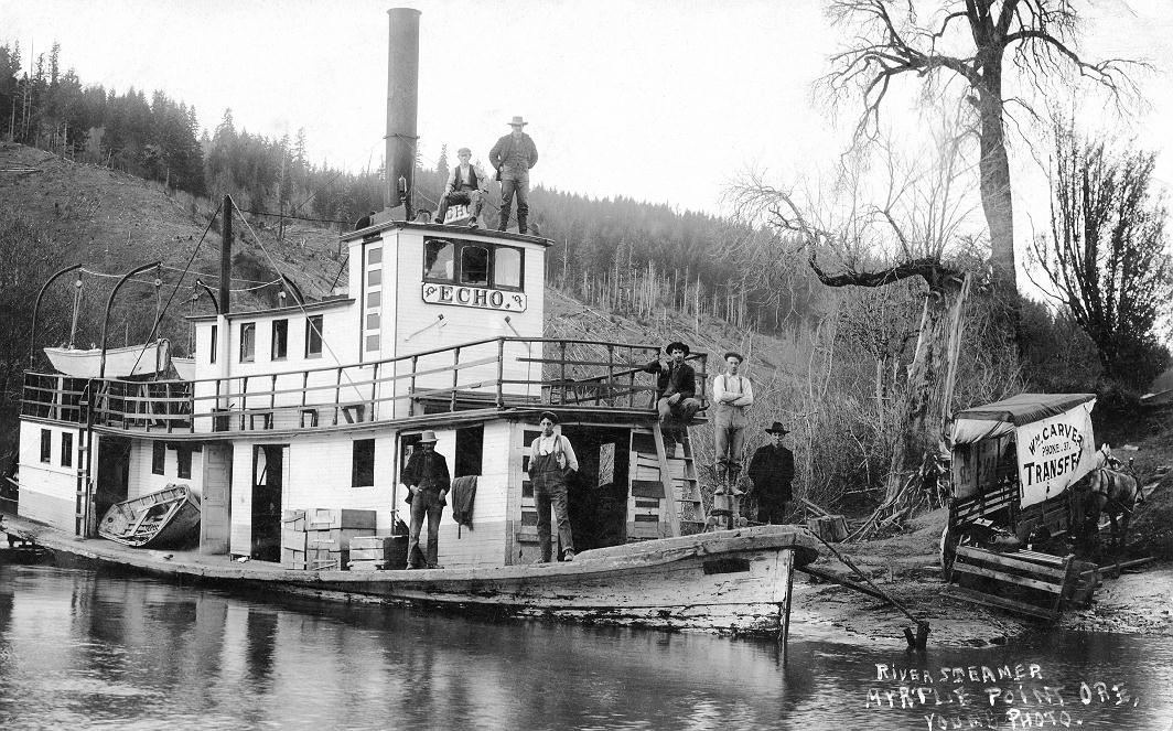 Sternwheeler Echo, somewhere on the Coquille River or its tributaries, from a postcard mailed 01 Apr 1903 from Myrtle Point, Oregon.